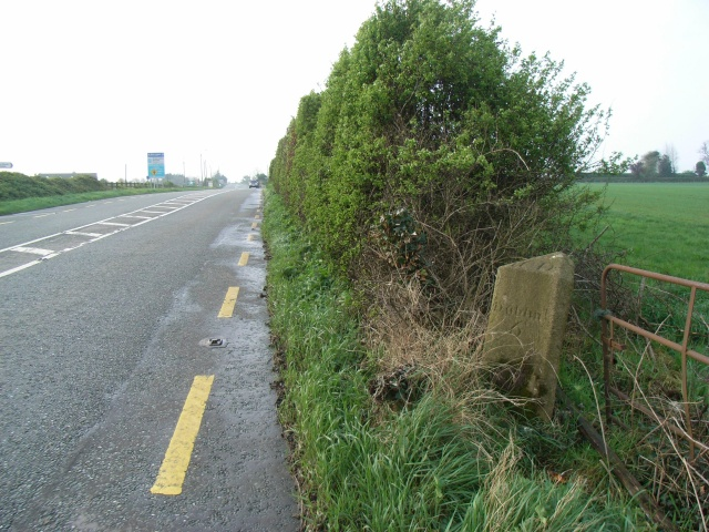 Milestone on the R135 (old N2) at Ward, Co. Dublin 6 Miles to Dublin one way, 16 to Slane, 16 to Drogheda and 17 to Navan the other. All given in old Irish miles, given its antiquity, one of those being a little over 2km in modern currency. Amazing that a piece of "road furniture" from the early 19th century can still be in place 200 years later. I suppose the sheer bulk of the thing helps - it's not easy to walk off with it.